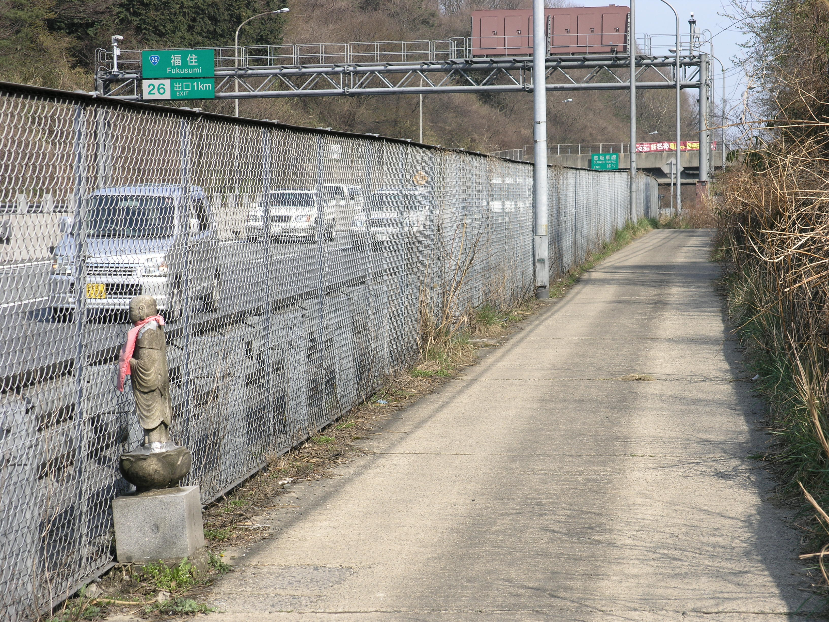 Nara Prefectural road No.192 in Tenri, Japan